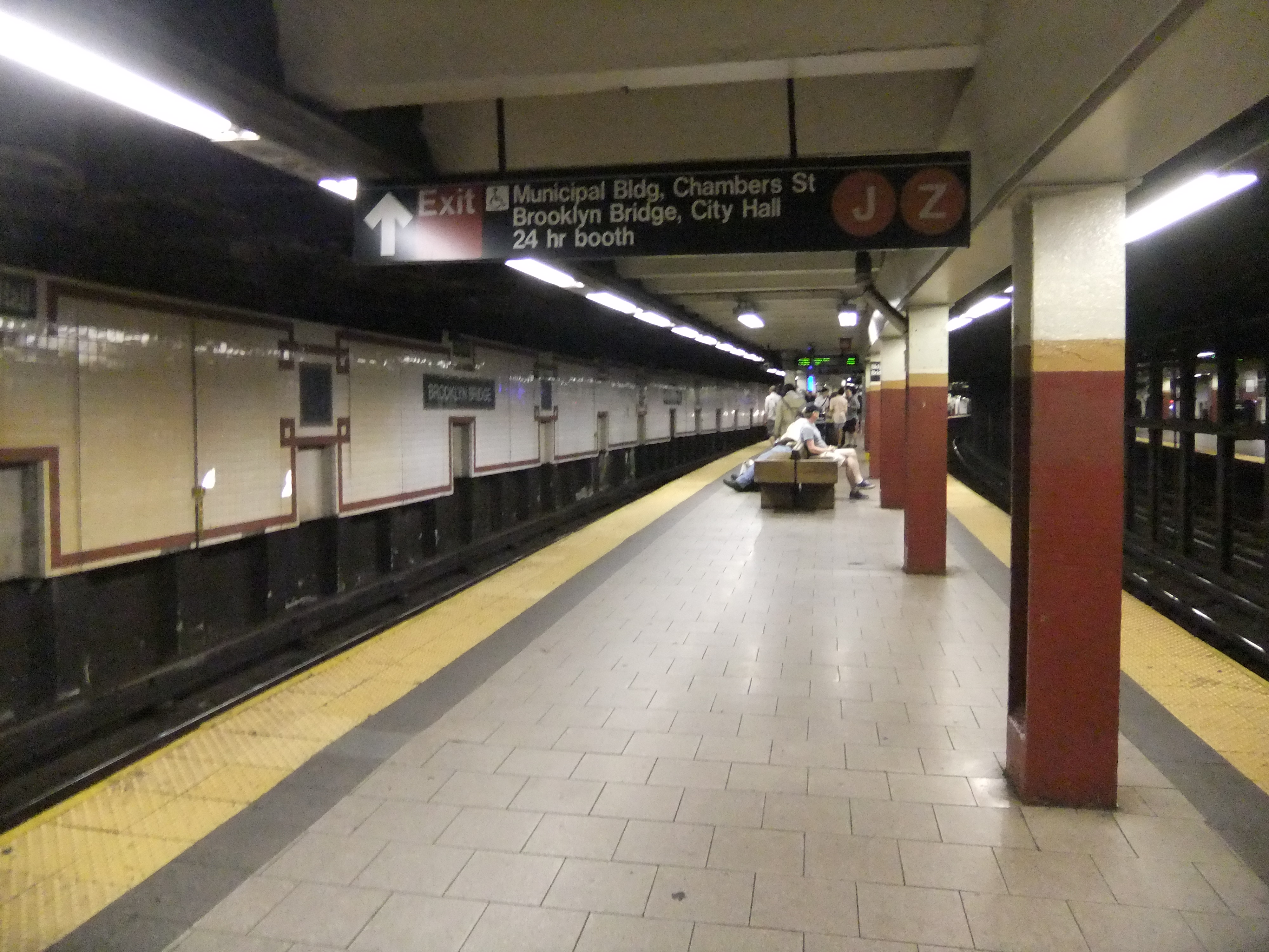 Uptown platform at Brooklyn Bridge - City Hall (4)(5)(6)